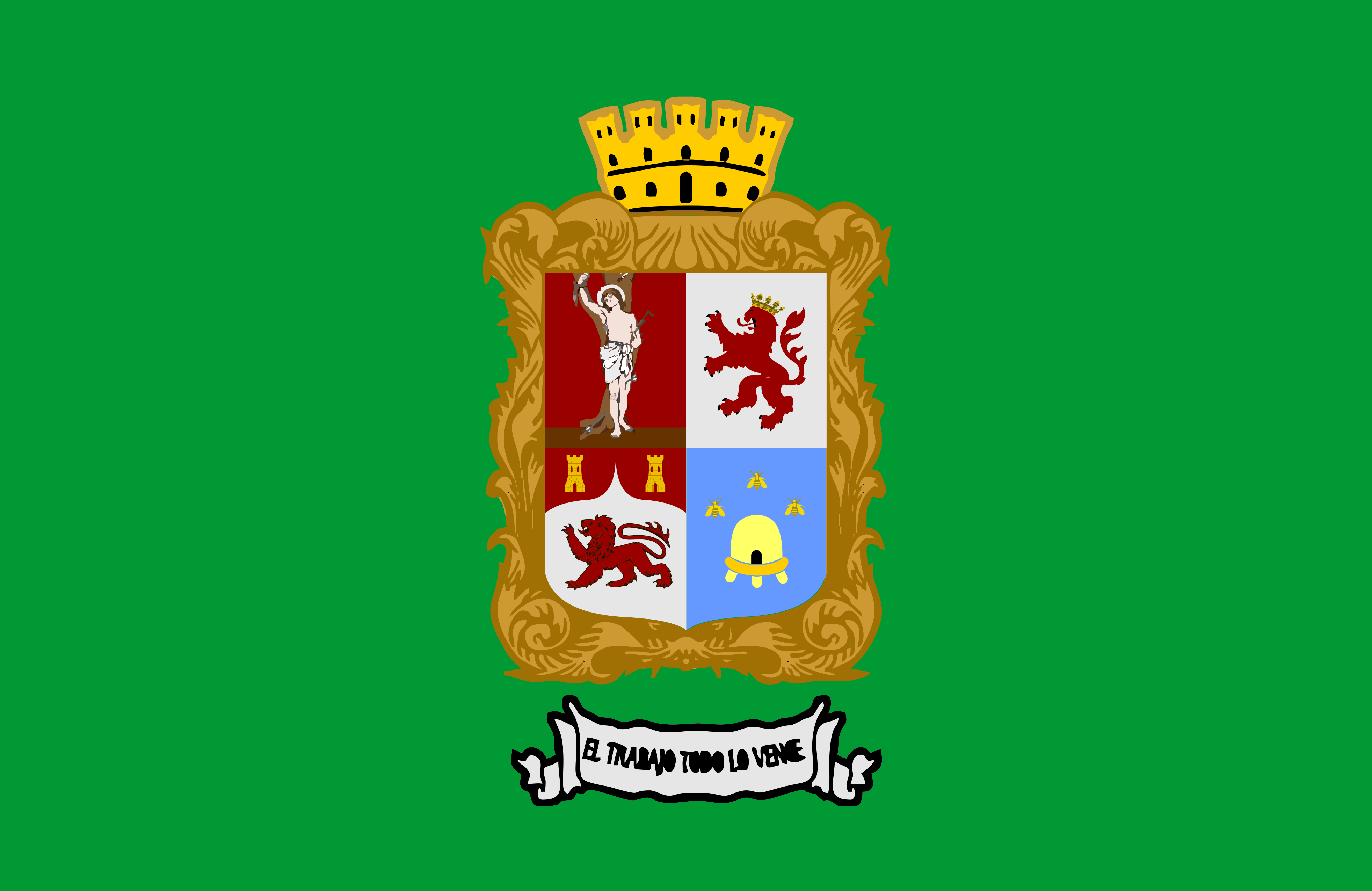 Bandera del municipio de Leon Gto